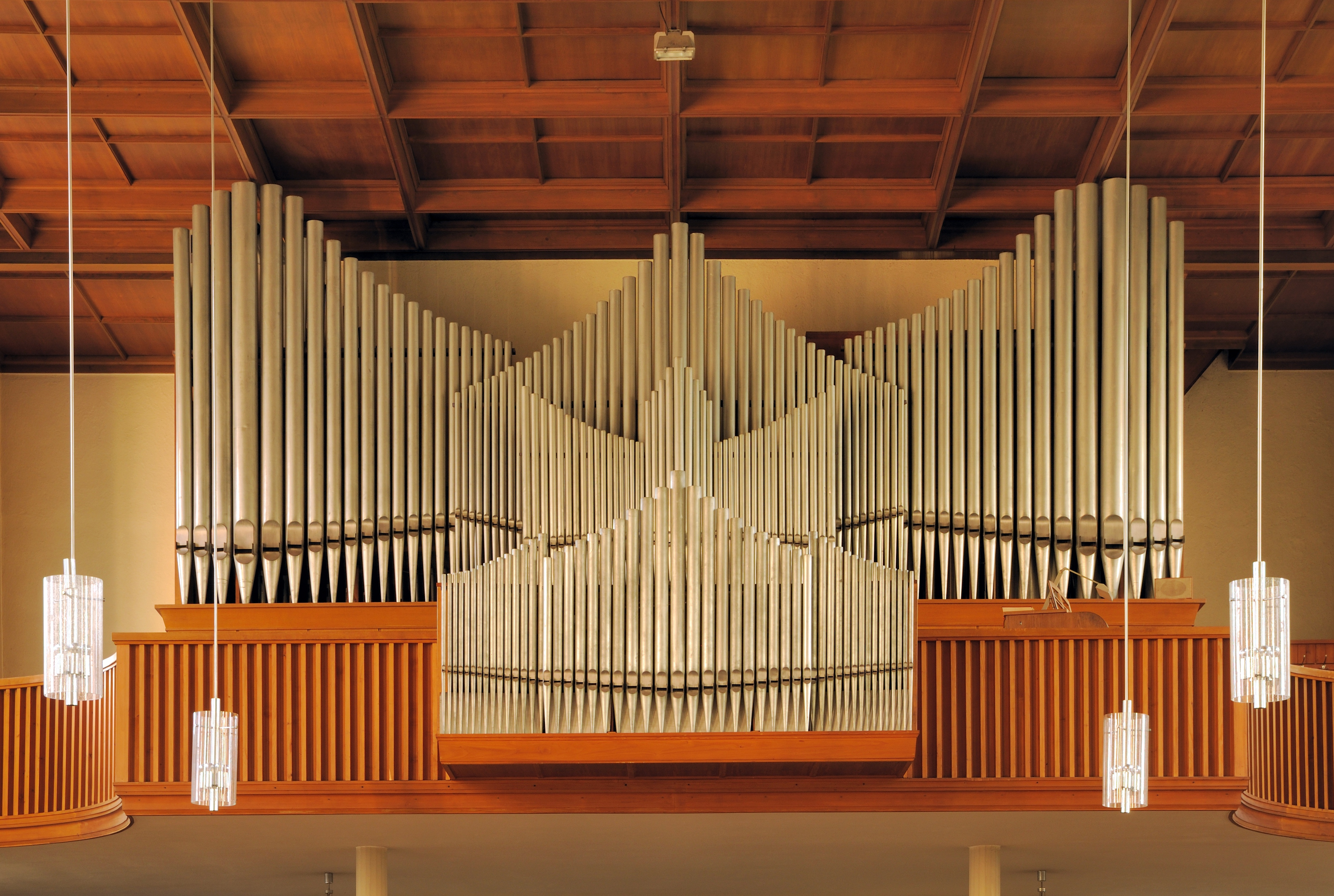 Zell im Wiesental: Saint Fridolin